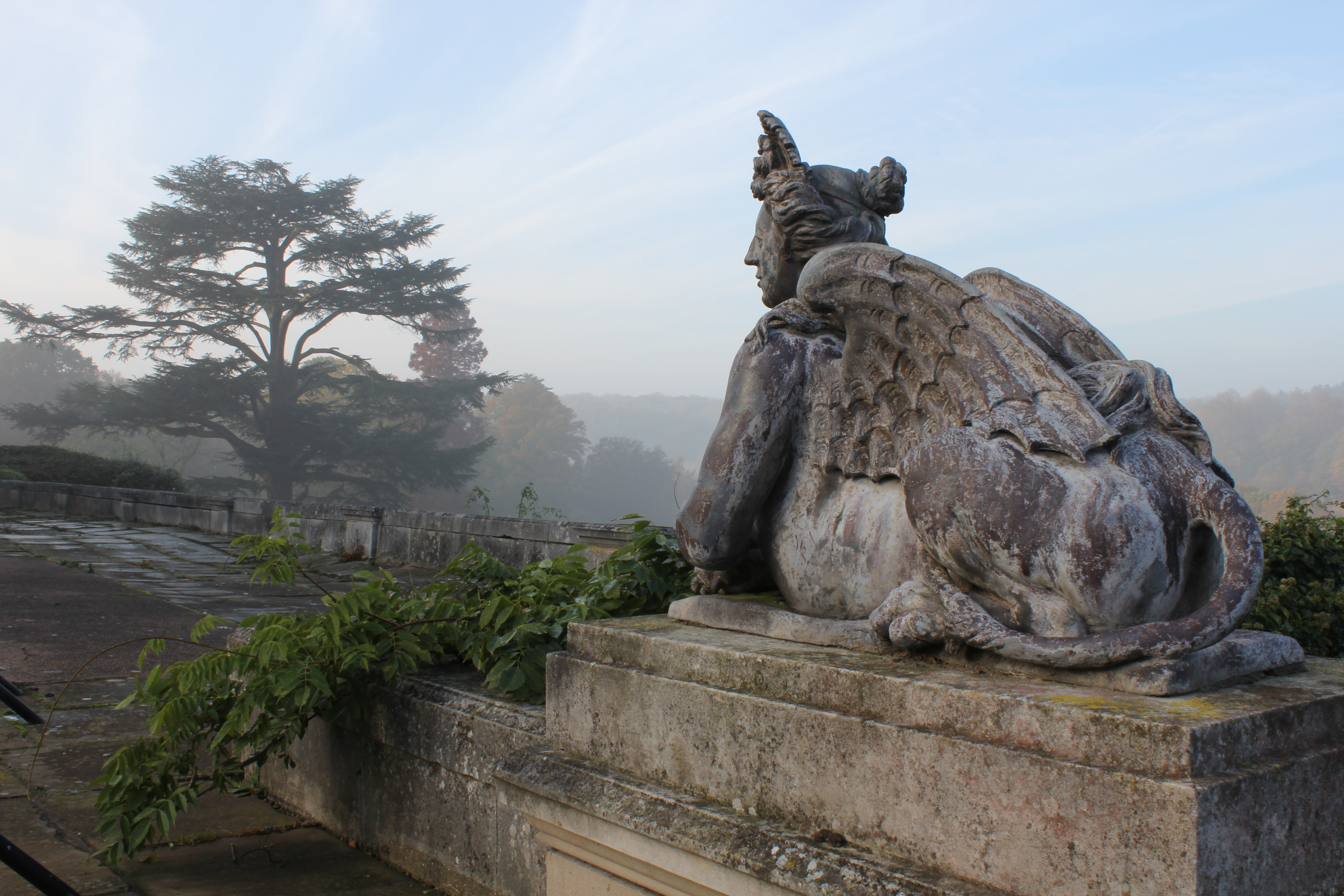 Sphinx overlooking the north terrace of Trent Park House, Enfield, UK. This is one of a pair sculpted around 1700 by John Nost at the top of the steps on the north-east side of the house. They were brought to Trent Park from Stowe, Bucks in the mid 1920s by Sir Philip Sassoon. British Listed Buildings